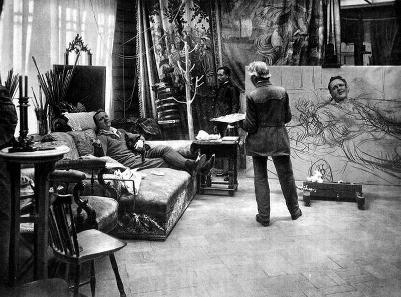 I. E. Repin painting a portrait of Feodor Chaliapin